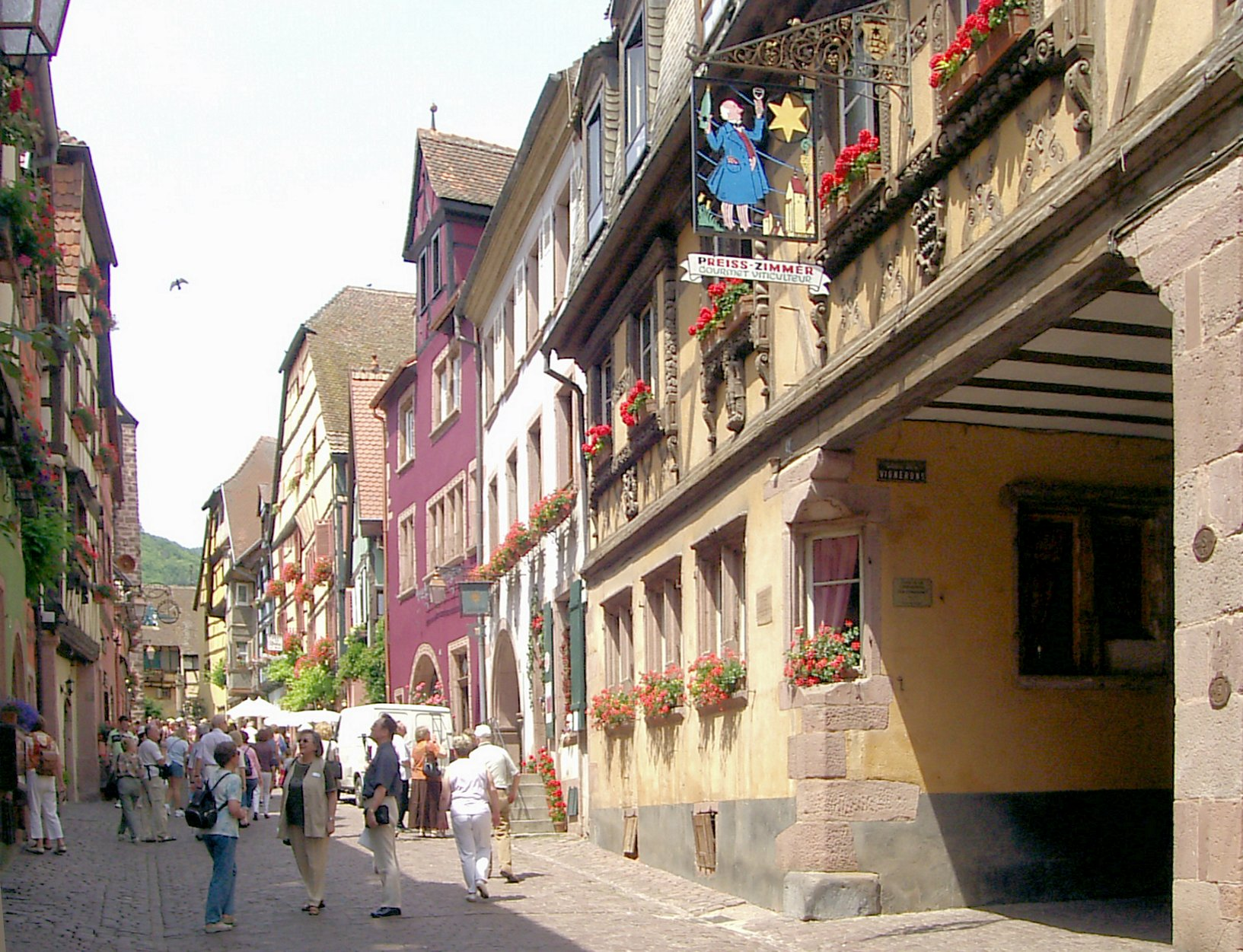 Riquewihr, one of the most beautiful old towns in France (16th century)